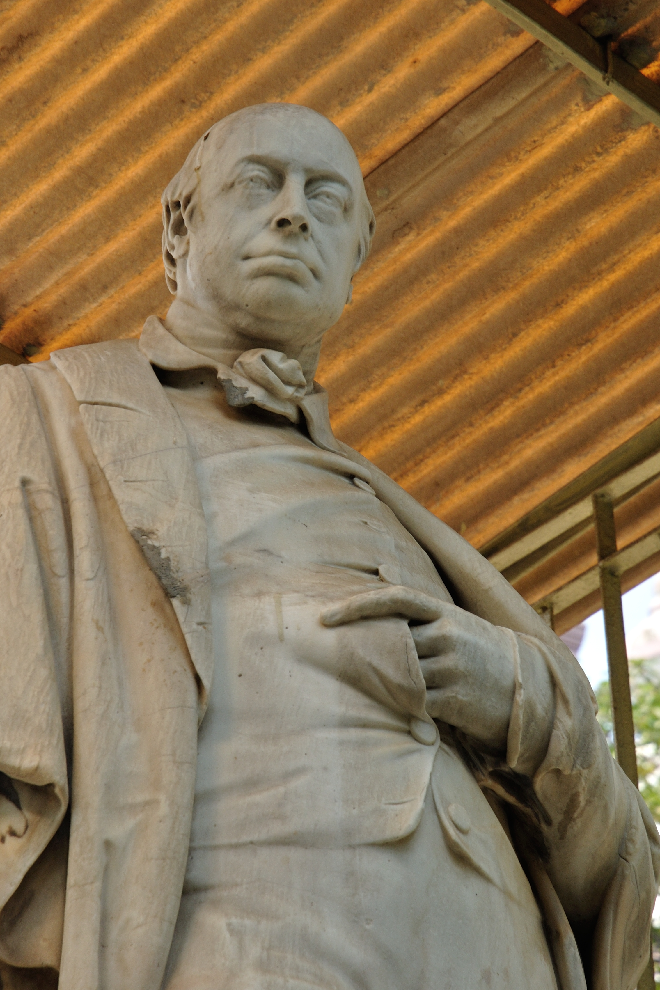 Photographed in Kolkata.